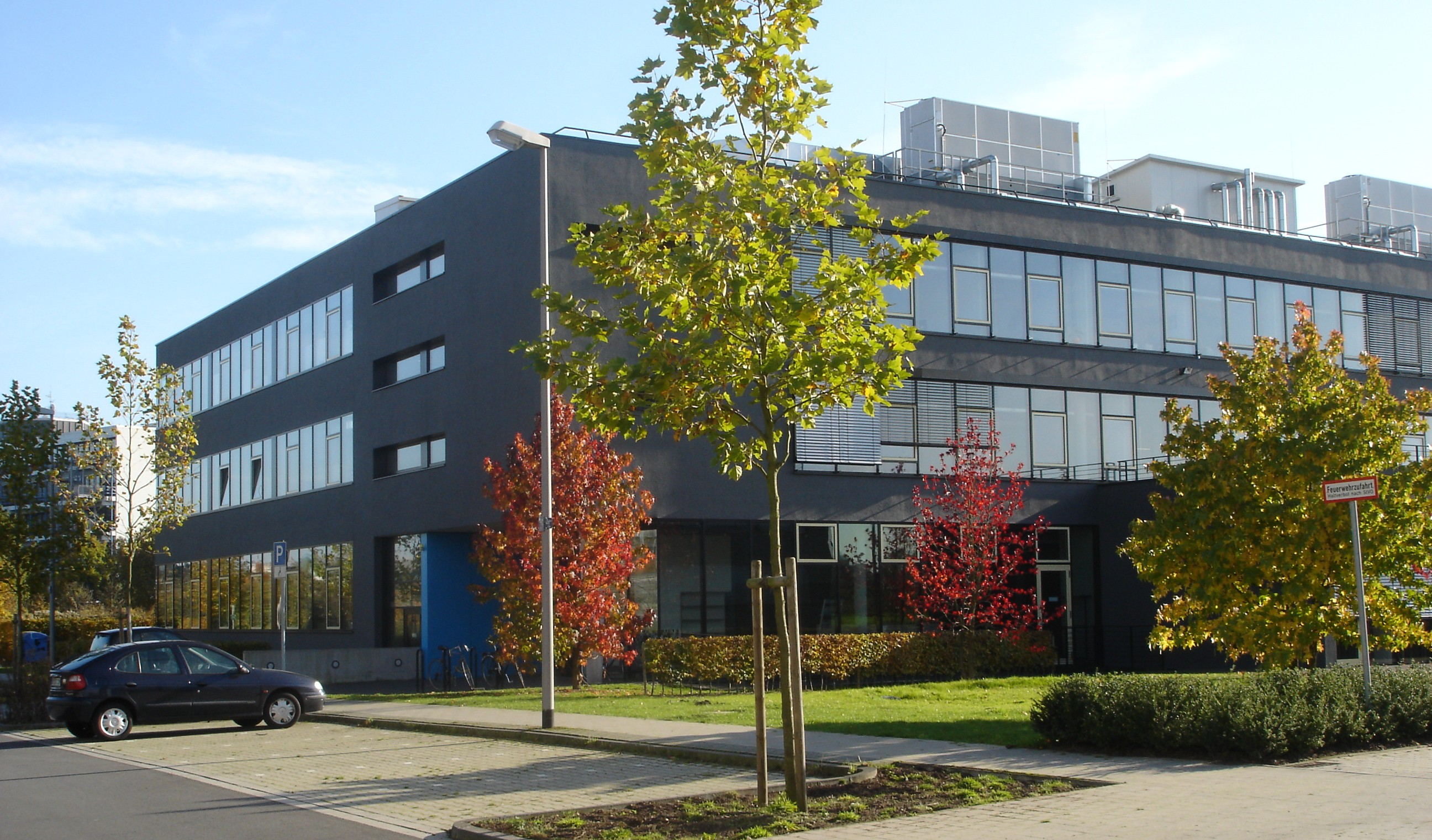 CenTech (Centrum for Nanotechnologie) in Muenster (Westphalia), Germany